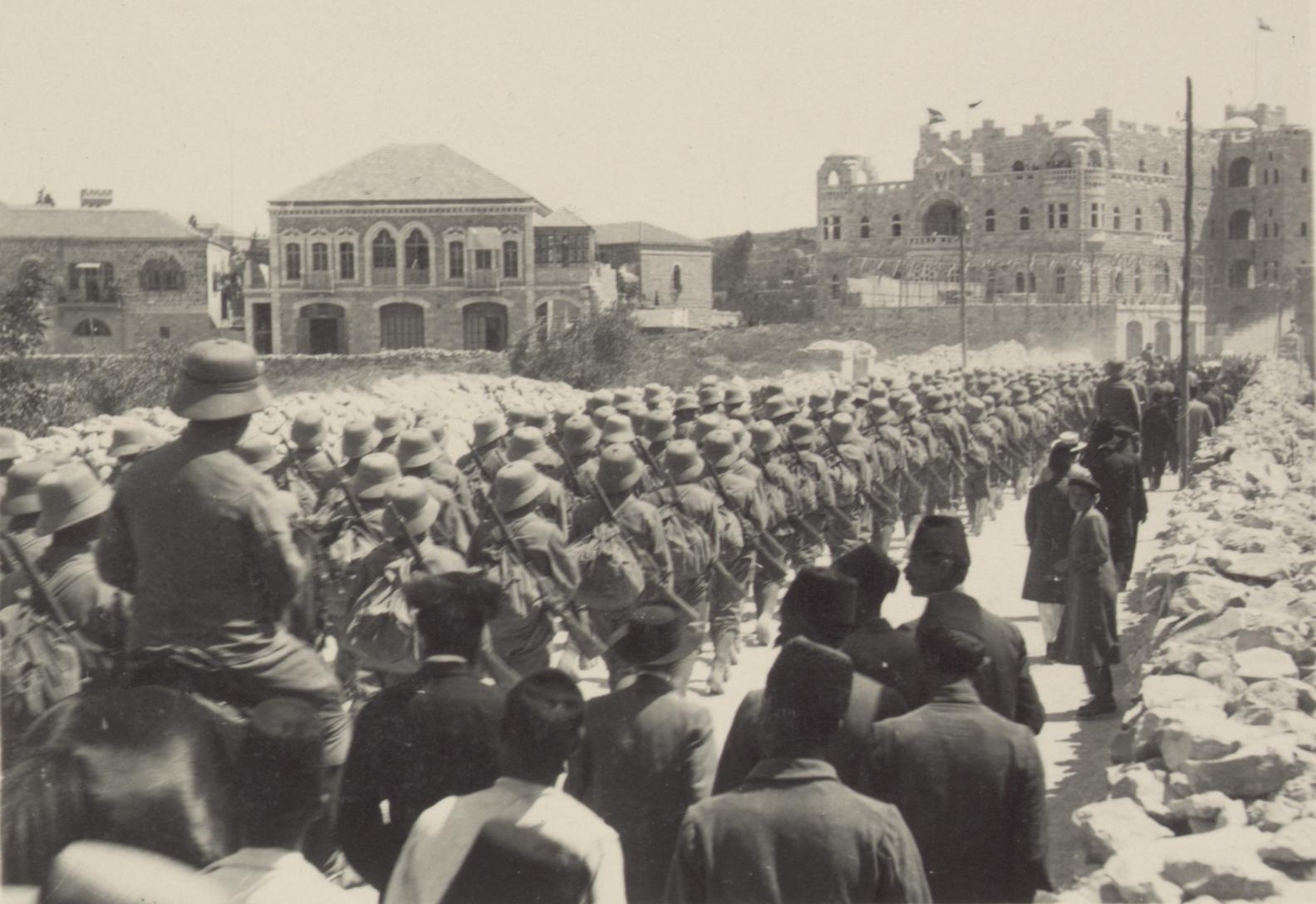 Austrian troops marching to their quarters at St. Paulus, 1916. LC-DIG-ppmsca-13709-00086 (digital file from original on page 24, no.85)